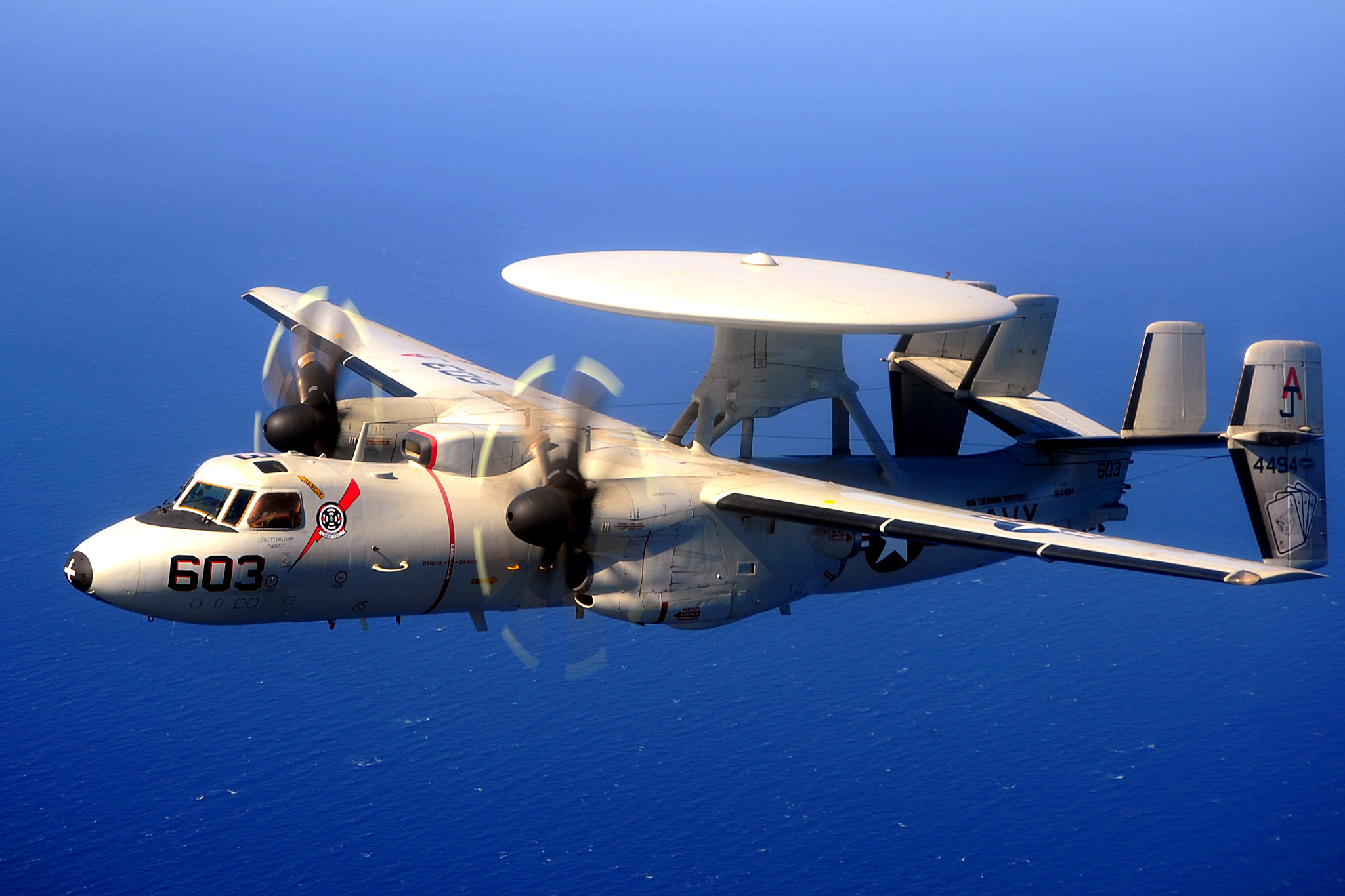 A U.S. Navy Grumman E-2C Hawkeye (BuNo 164494) from carrier airborne early warning squadron VAW-124 Bear Aces flies over the Gulf of Aden in the U.S. 5th Fleet area of responsibility, on 25 March 2009. VAW-124 was assigned to Carrier Air Wing 8 (CVW-8) aboard the aircraft carrier USS Theodore Roosevelt (CVN-71) for a deployment to the Mediterranean Sea and the Indian Ocean from 8 September 2008 to 18 April 2009.